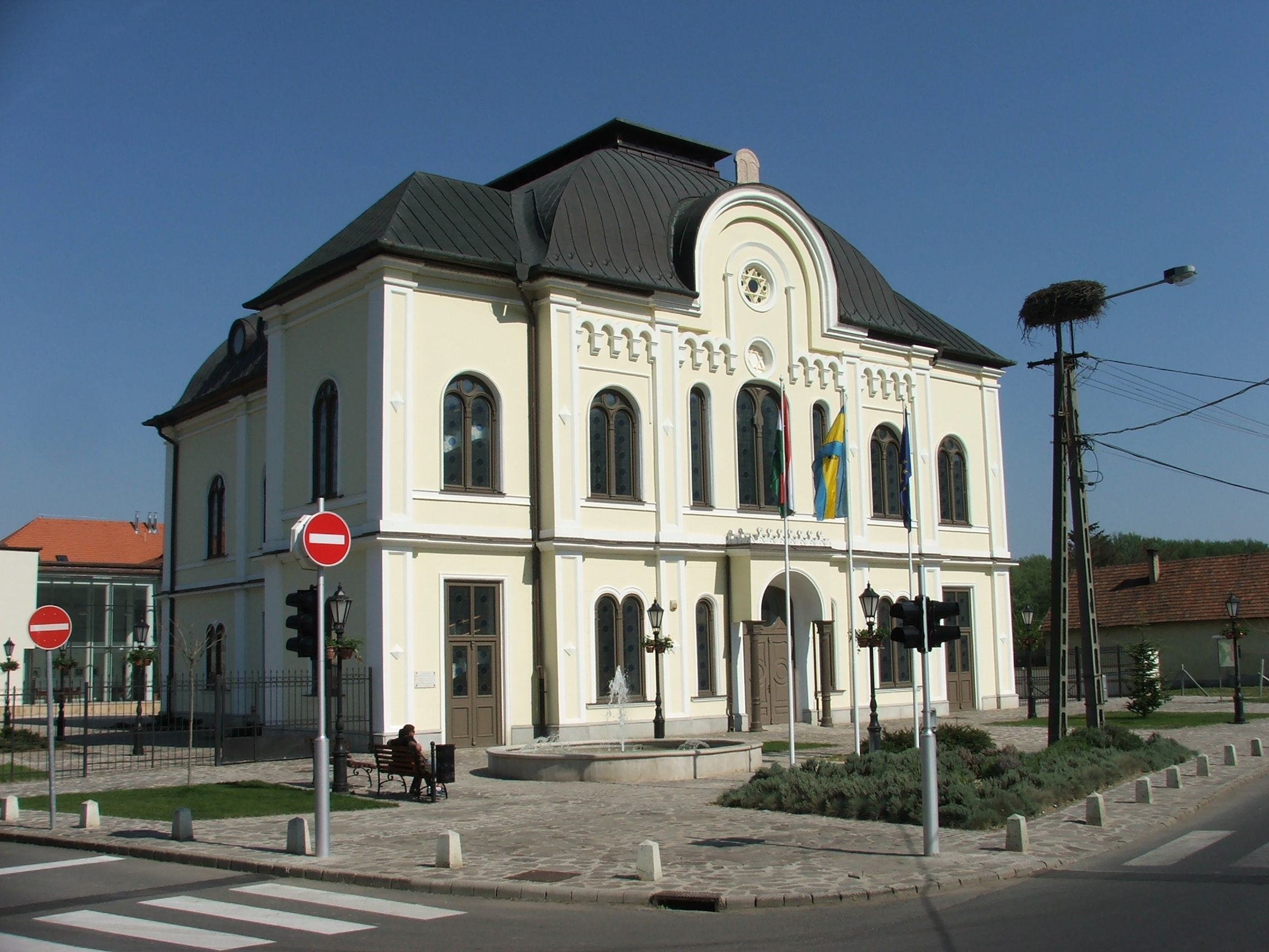 Former Synagouge in Tokaj, Hungary